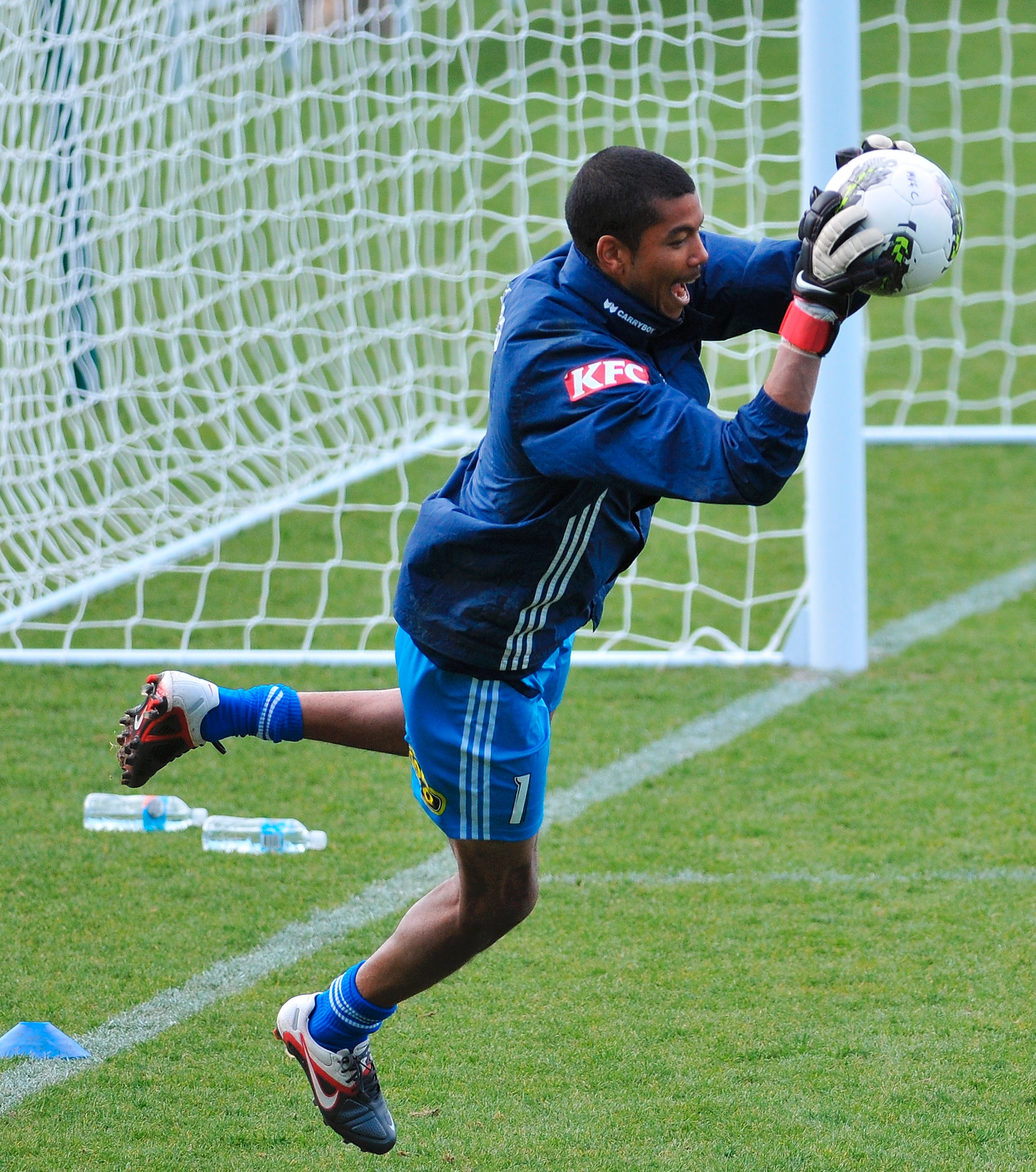 Tando Yuji Velaphi practising goal keeping for the Melbourne Victory before a pre-season game against the Brisbane Roar at Aurora Stadium, Launceston, Tasmania